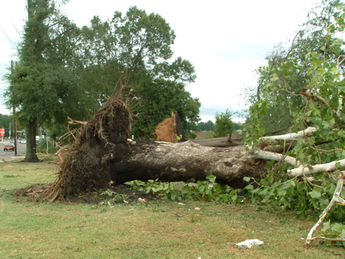 This is a photograph of some of the extreme damage caused by "Hurricane Elvis". I took this photograph myself. This derecho took place in Memphis TN on July 22, 2003, and left huge portions of the city without power for weeks.